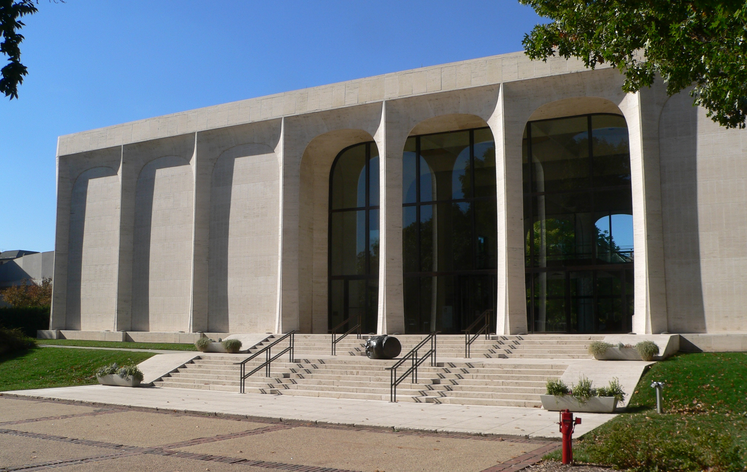 Sheldon Museum of Art, located on campus of University of Nebraska in Lincoln, Nebraska: southern two-thirds of building, seen from the northeast.